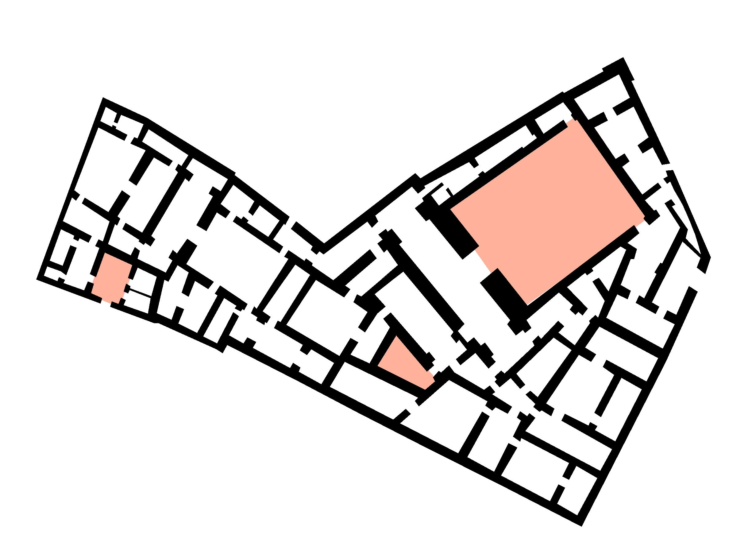 House at Susa, level XIV, Potts, Archaeology of Elam, p. 172, fig. 6.2